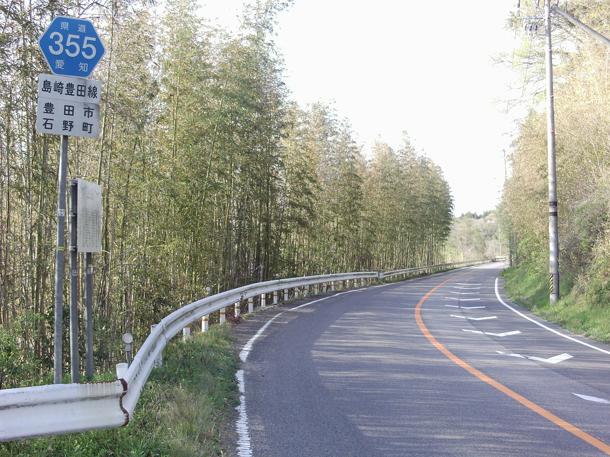 Aichi prefectural road No.355 in Ishinocho, Toyota, Aichi.